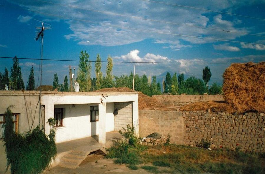 Yukarıçarıkçı Village, Iğdır